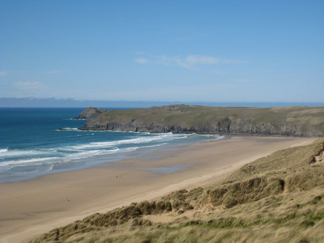 View along the coast towards Ligger Point from Penhale Sands